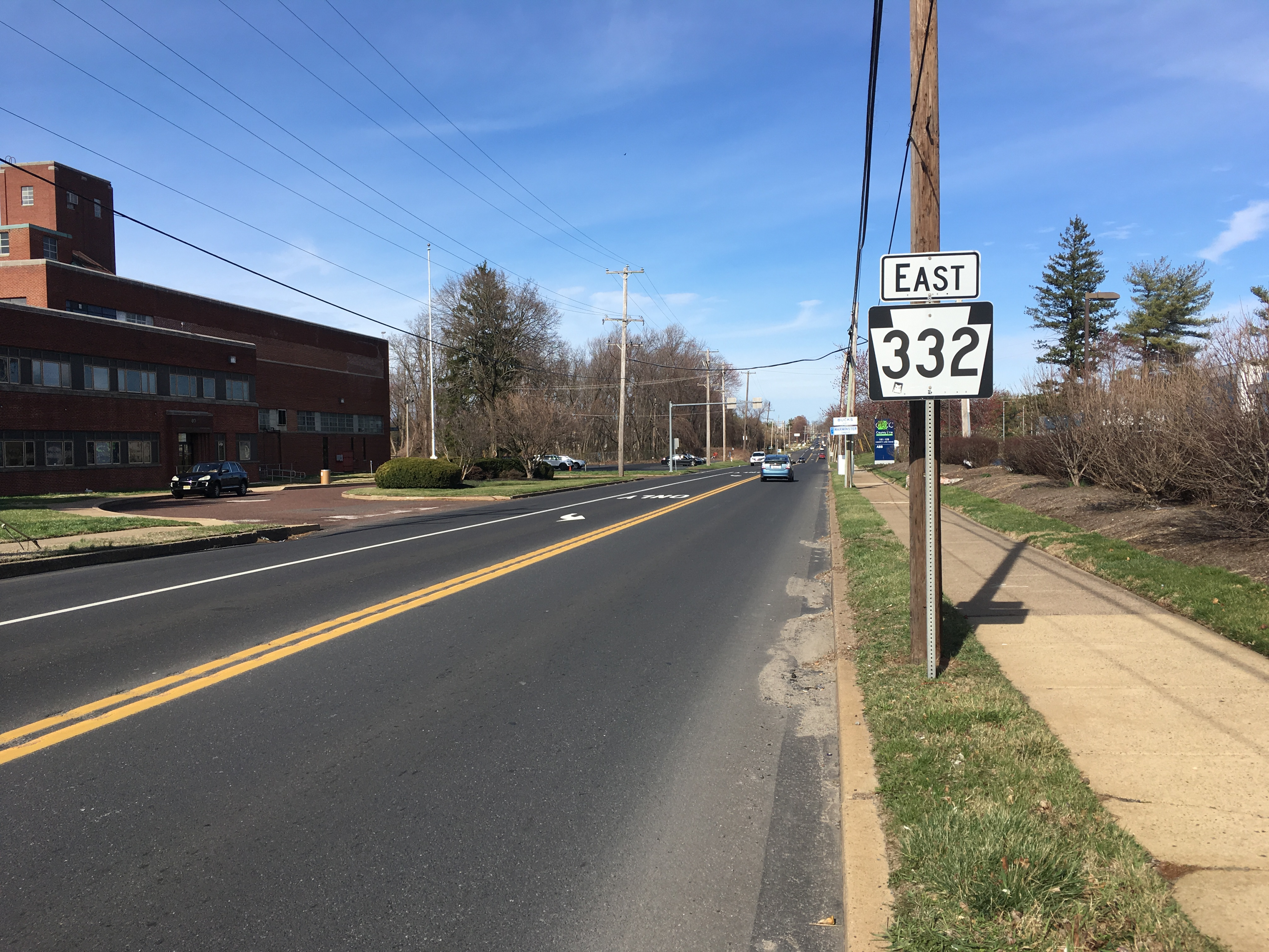 Eastbound Pennsylvania Route 332 (Jacksonville Road) past the intersection with County Line Road in Warminster Township, Pennsylvania.